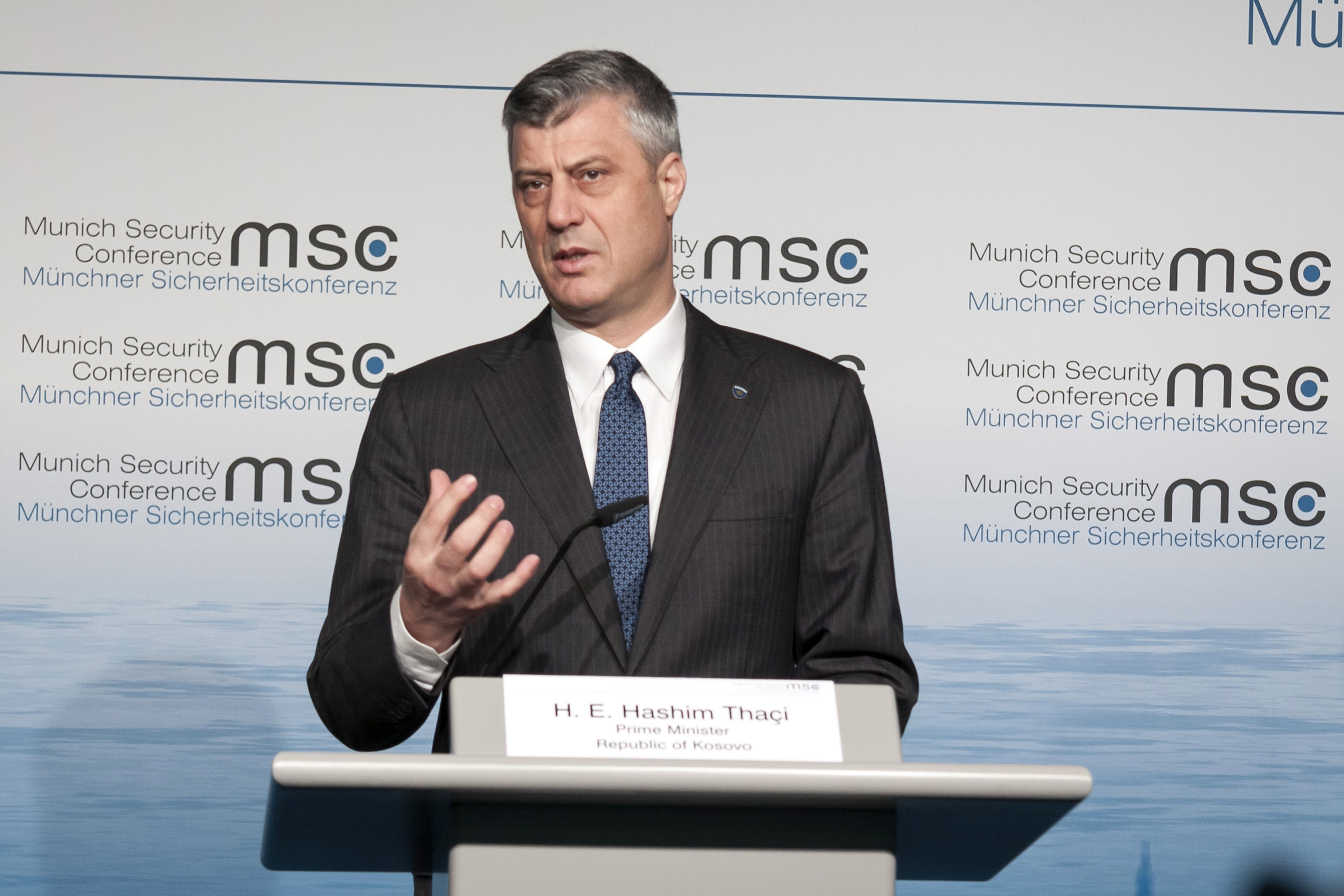 50th Munich Security Conference 2014: Hashim Thaçi: Hashim Thaçi (Prime Minister, Pristina).